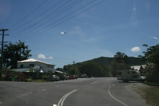 Daintree Village in the the Daintree area in far north Queensland